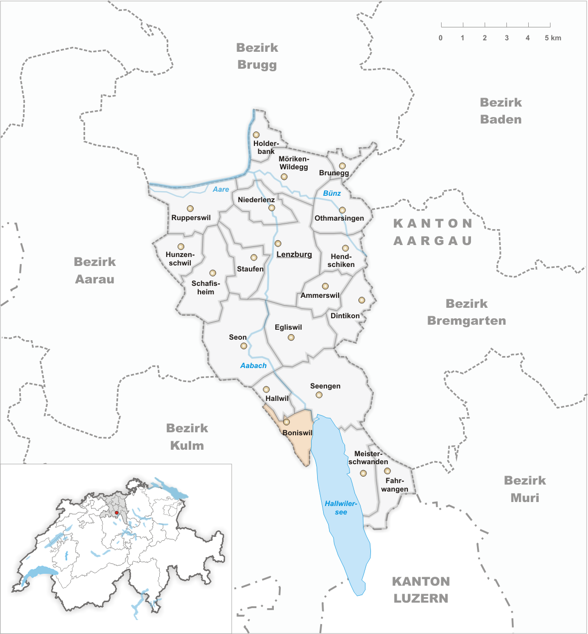 Municipality Boniswil